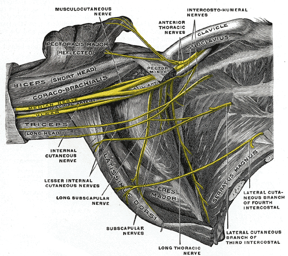 The right brachial plexus (infraclavicular portion) in the axillary fossa; viewed from below and in front. The Pectoralis major and minor muscles have been in large part removed; their attachments have been reflected. (Spalteholz.)